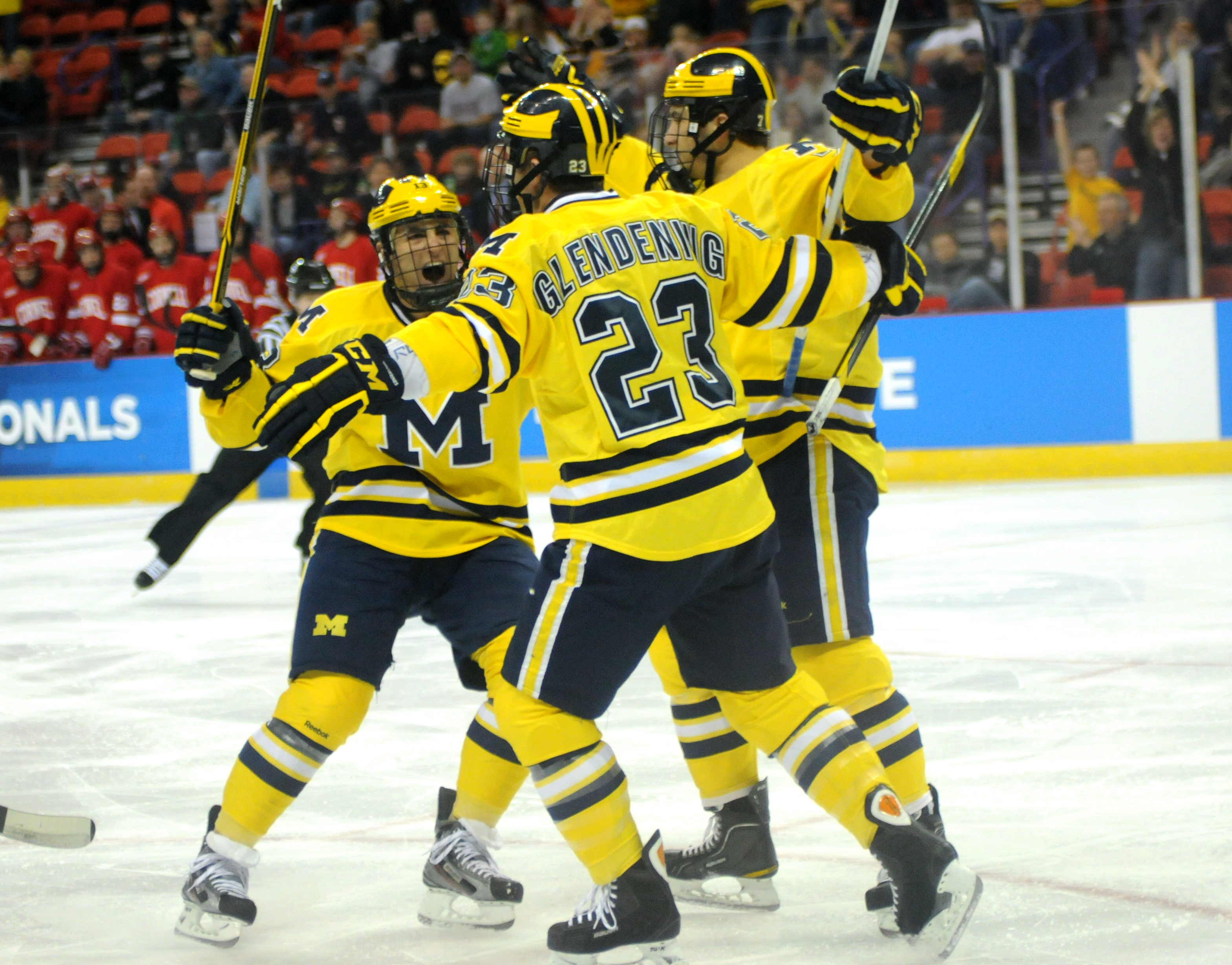 Lee Moffie and Luke Glendening with the Michigan Wolverines (CCHA) - University of Michigan. Taken on March 23, 2012 (Adam Glanzman/Daily)